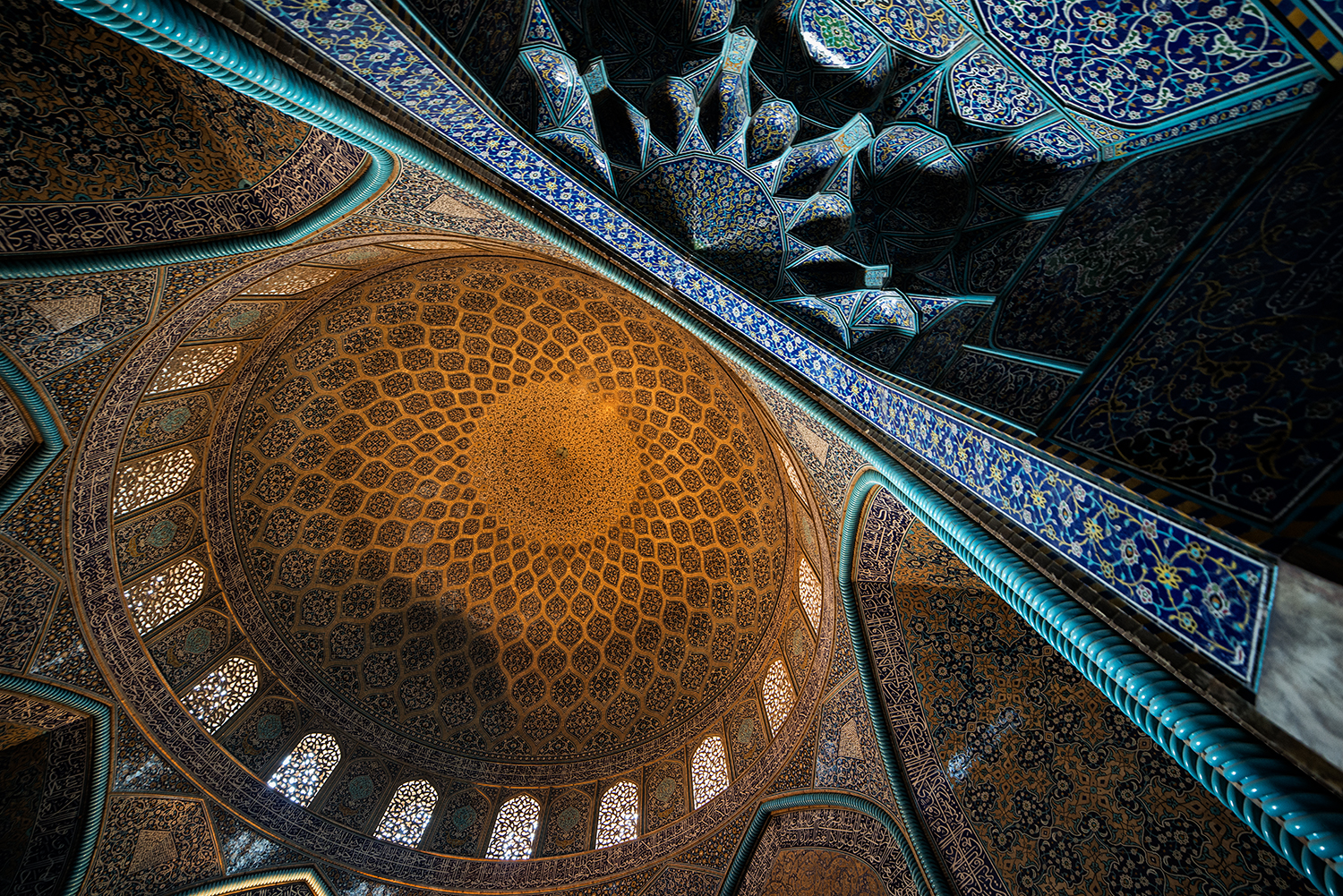 Sheykh Lotfolah Mosque